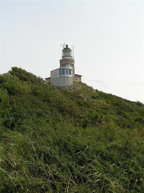 Photo: Bengt Olof ÅRADSSON